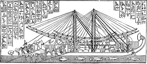 Seagoing ship from Hateshepsut's Deir el-Bahari temple